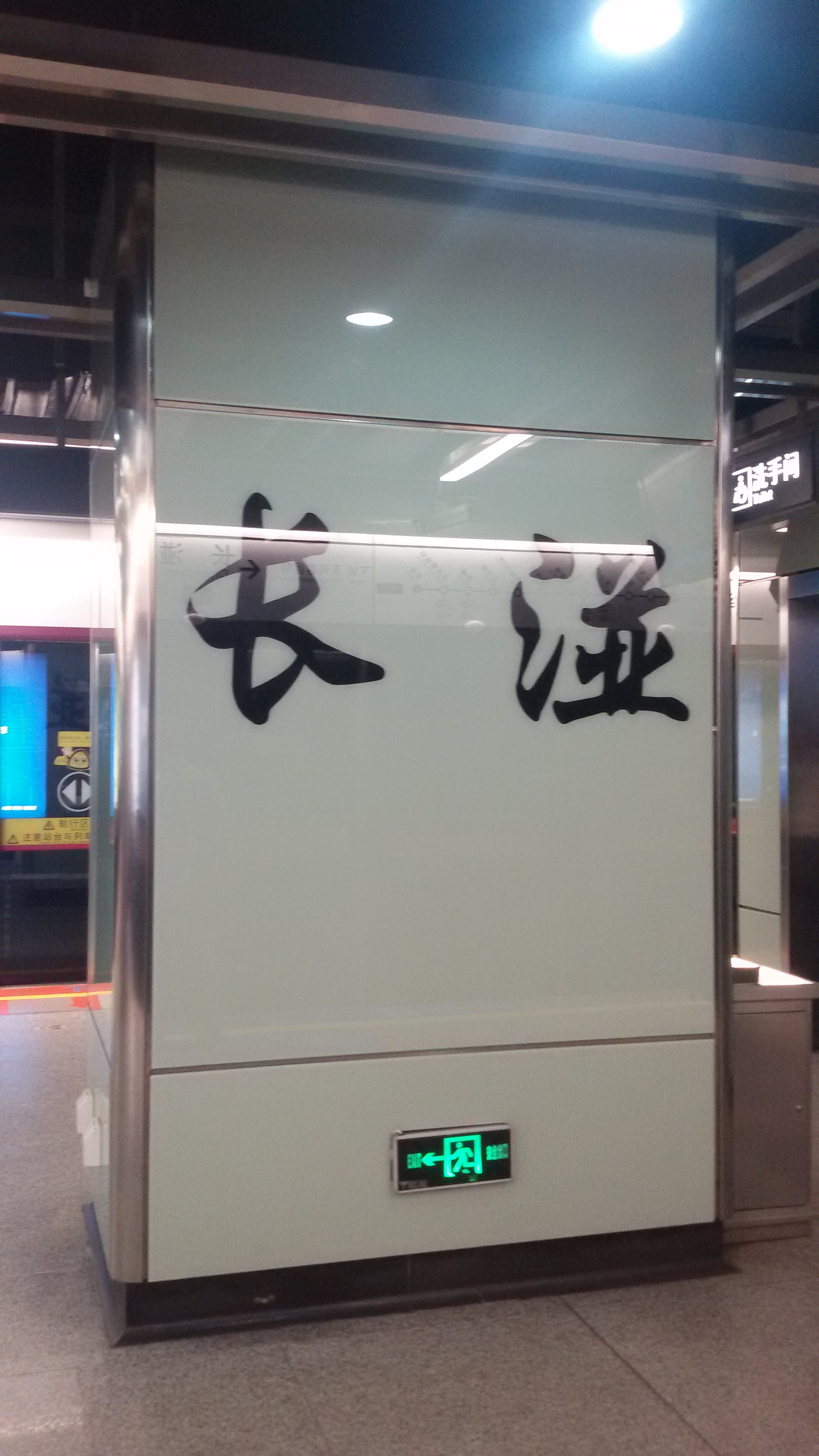 WORD on PILLAR for Changban Station in Guangzhou Metro.